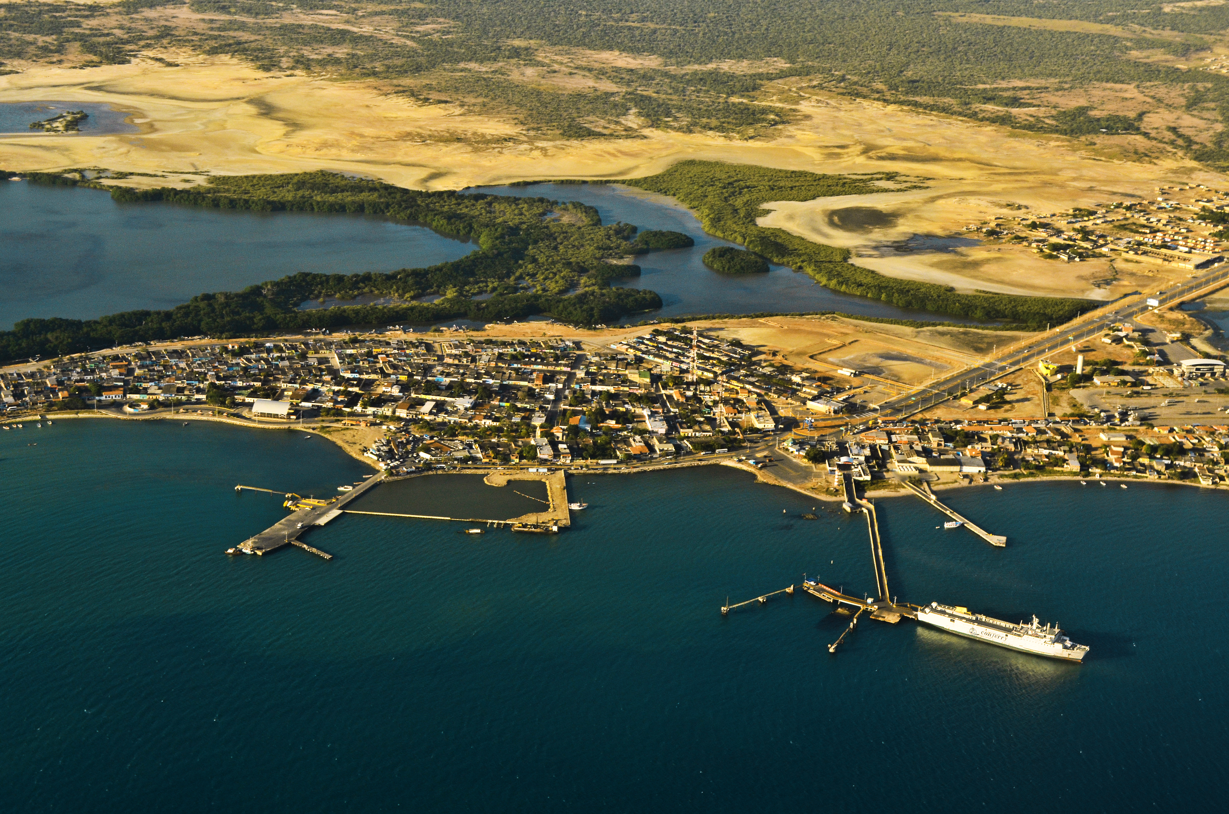 Aerial view of Punta de Piedras, a small city and main port for ferries in Margarita island, Venezuela. Image taken on february 2013